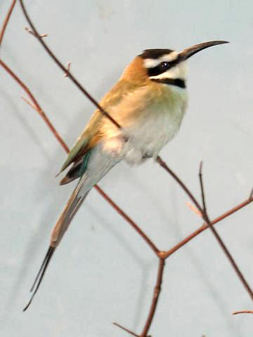 Description: White-throated Bee-eater Merops albicollis - Source: own work - Location: Bronx Zoo, New York - Author: self, User:Stavenn